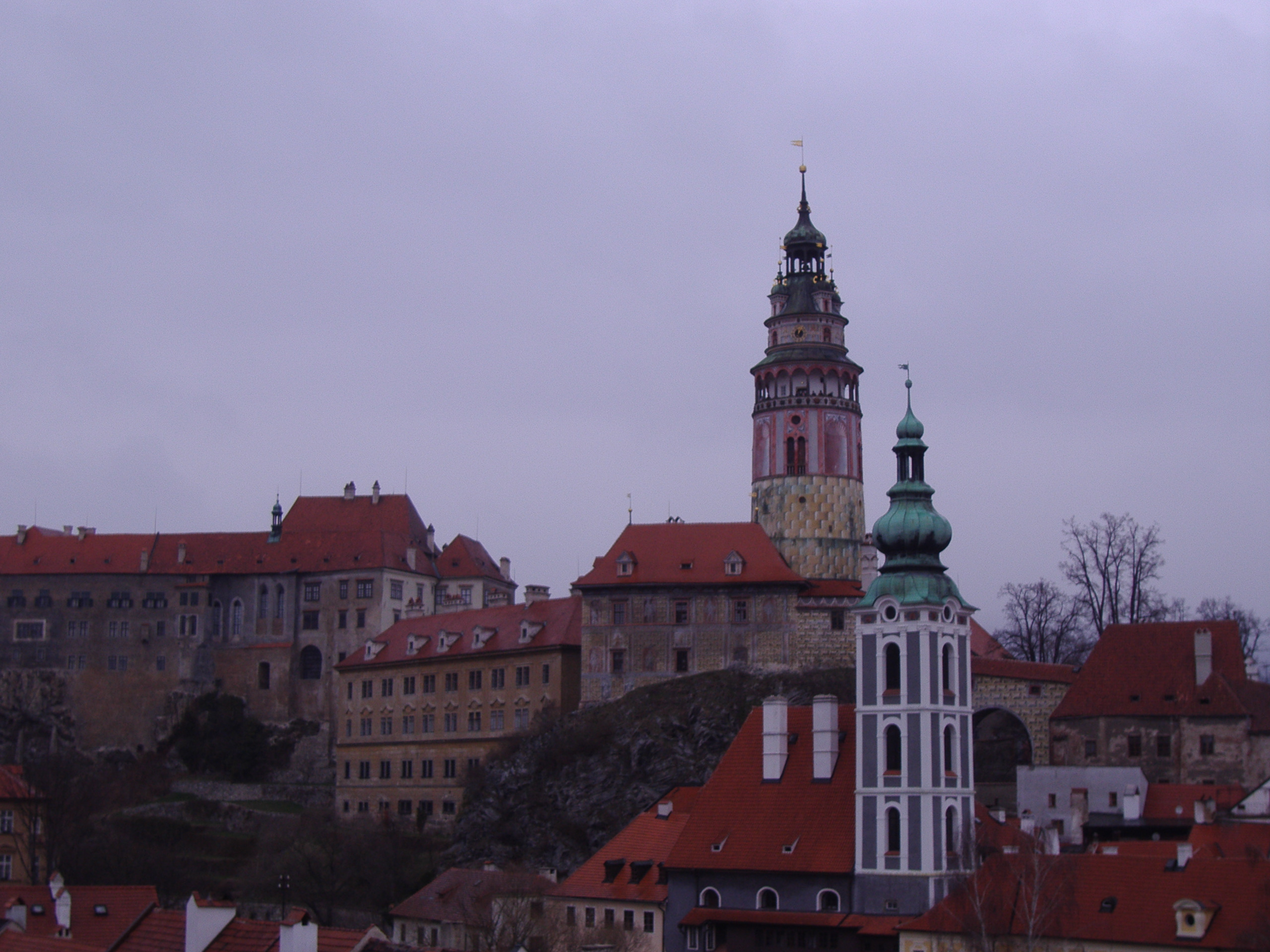 Castle of Cesky Krumlov, view from the center of city. photoed by Shen Yun